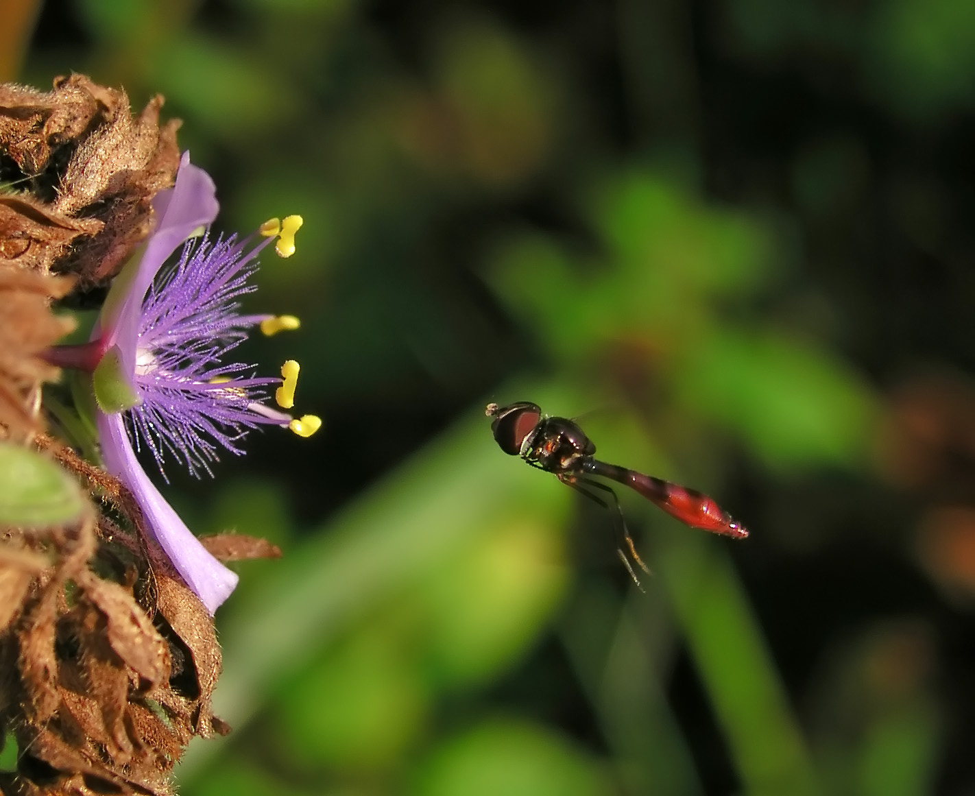 An example of some photoshop editing I did to try to improve this photo for featured pictures. This is a fly in the family Syrphidae, the genus Ocyptamus, and the flower is in the family Commelinaceae, genus Tradescantia.